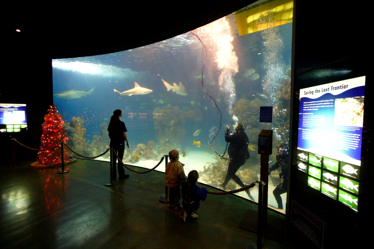 "Out to Sea Gallery" at the Wonders of Wildlife Museum & Aquarium, Springfield, Missouri